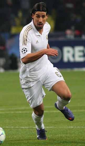 Sami Khedira